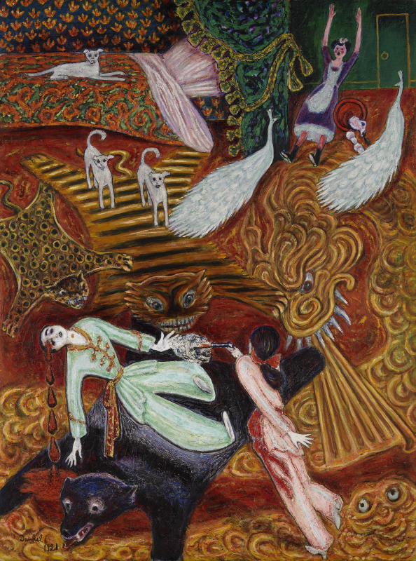 Nils Dardel 1888 - 1943 France, Born Sweden Crime passionnel, 1921 Svartsjukedrama Crime of Passion Olja på duk 130 x 98 cm Paintings Purchase 1927 On display Moderna Museet - Malmö